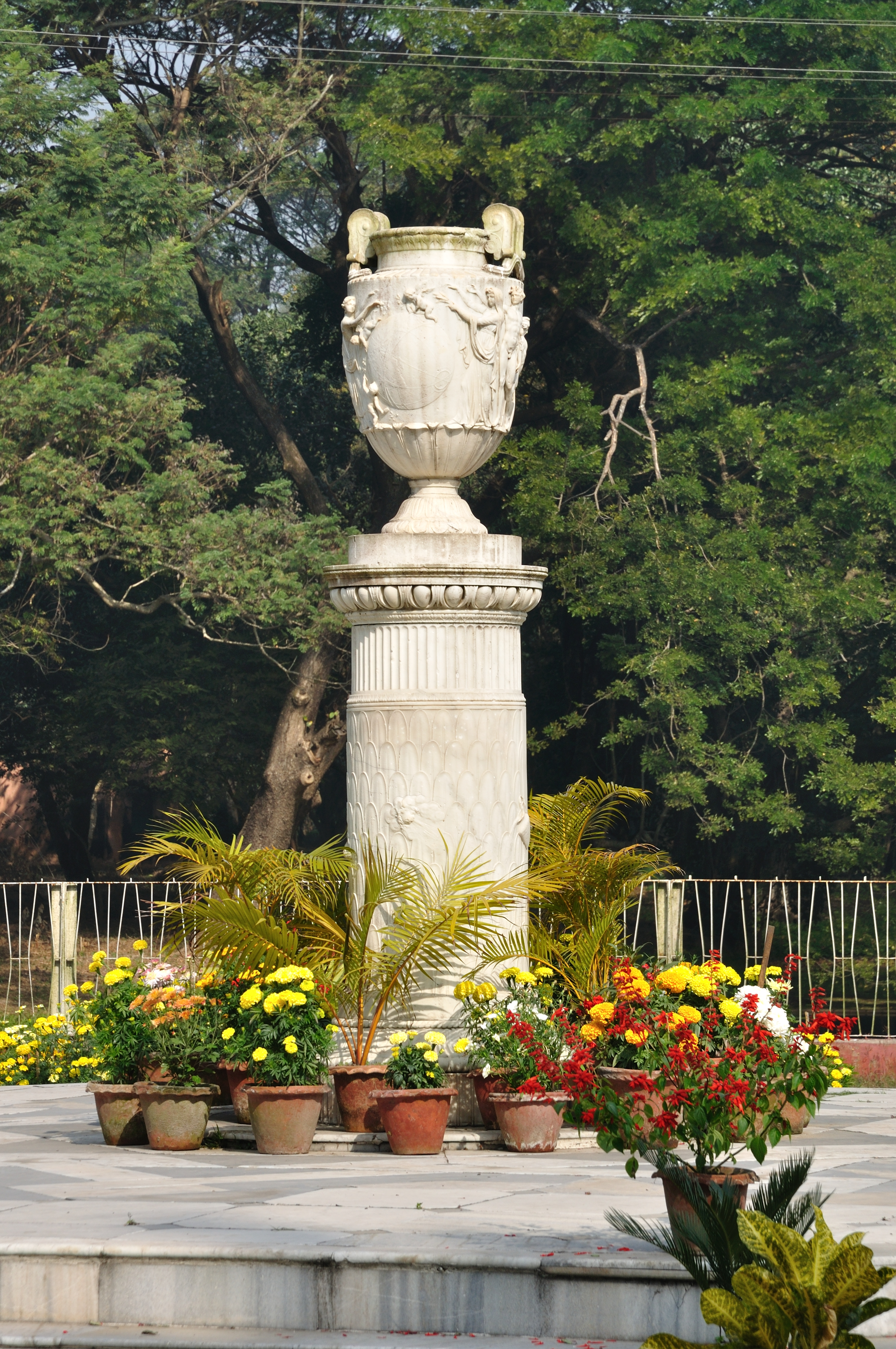 Kyd monument. The botanical garden at Howrah, was known as ‘East India Company’s Garden’ or the ‘Company Bagan’ or ‘Calcutta Garden’ and later as the ‘Royal Botanic Garden’ which after independence was renamed as the ‘Indian Botanic Garden’ in 1950. It came under the management of the Botanical Survey of India on January 1, 1963. From June 25, 2009 it is renamed as ‘Acharya Jagadish Chandra Bose Indian Botanic Garden’.